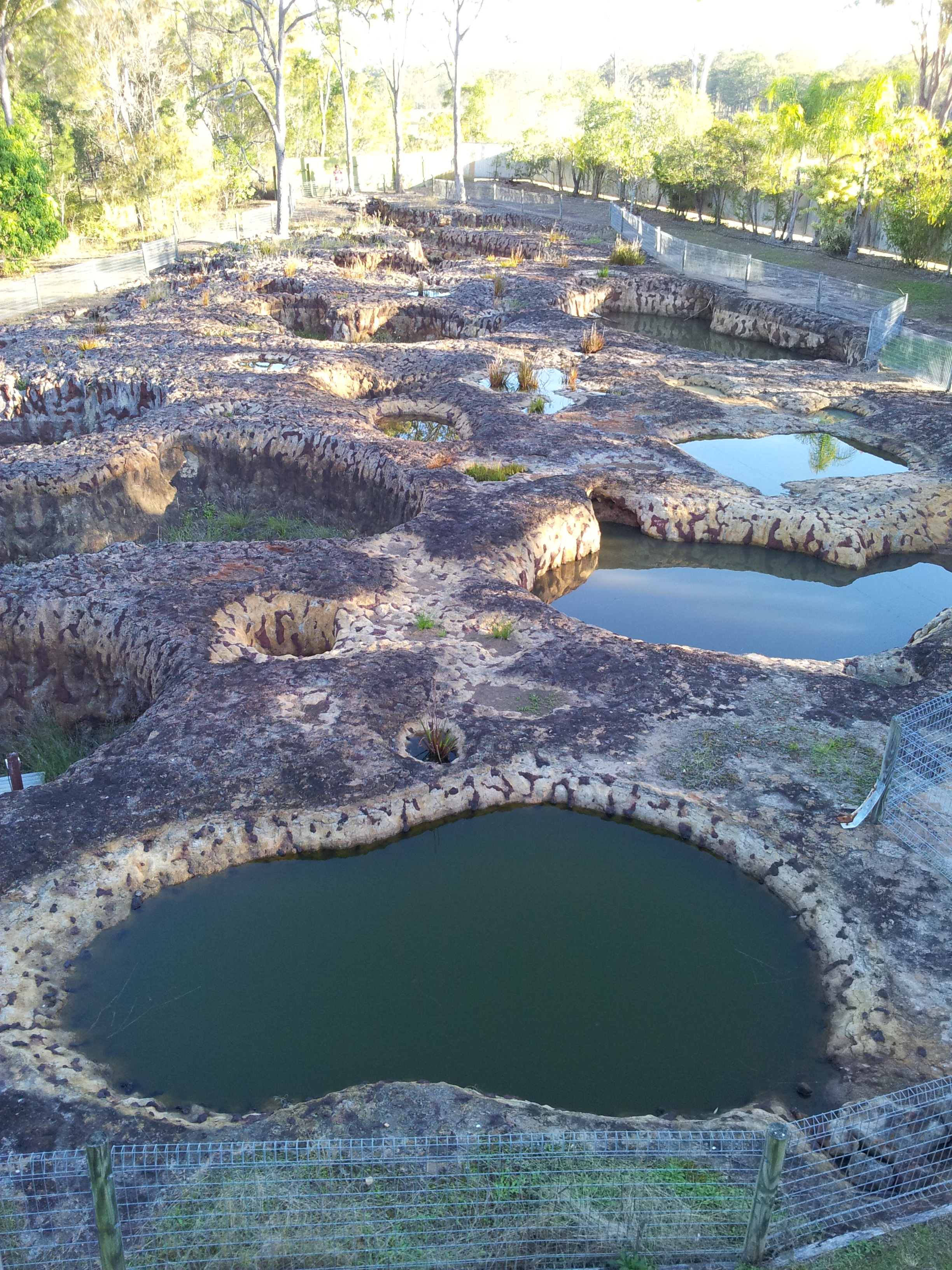 South Kolan Mystery Craters, near Bundaberg, Australia